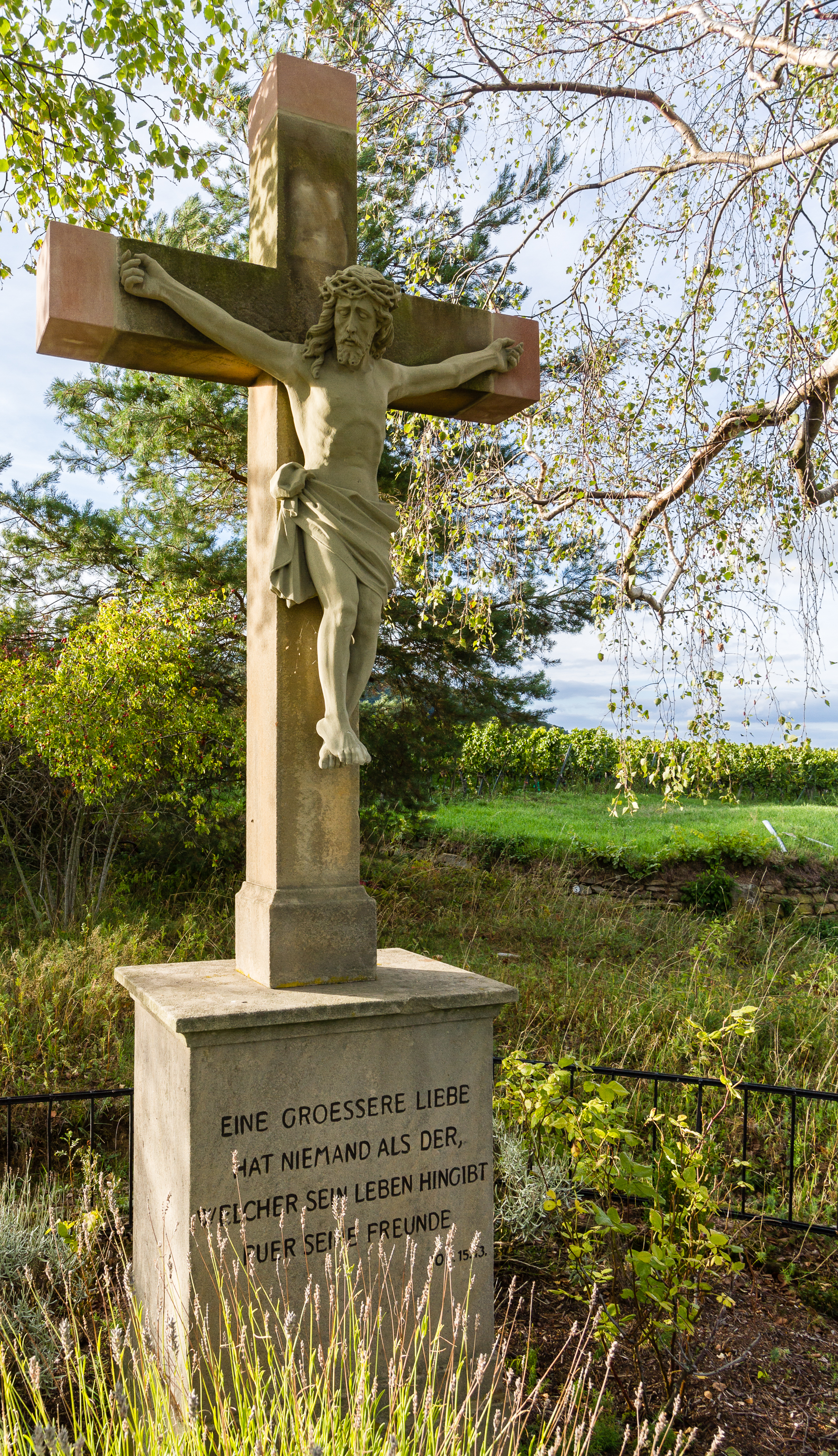 Designation: Wayside cross Location: At a crossroad about 600 m west of the Deutsche Weinstraße. Parcel of land: Im Hergottsacker Place: Deidesheim, District Bad Dürkheim, Rhineland-Palatinate Construction time: probably around 1925 Description: Yellow sandstone, enclosure during construction.